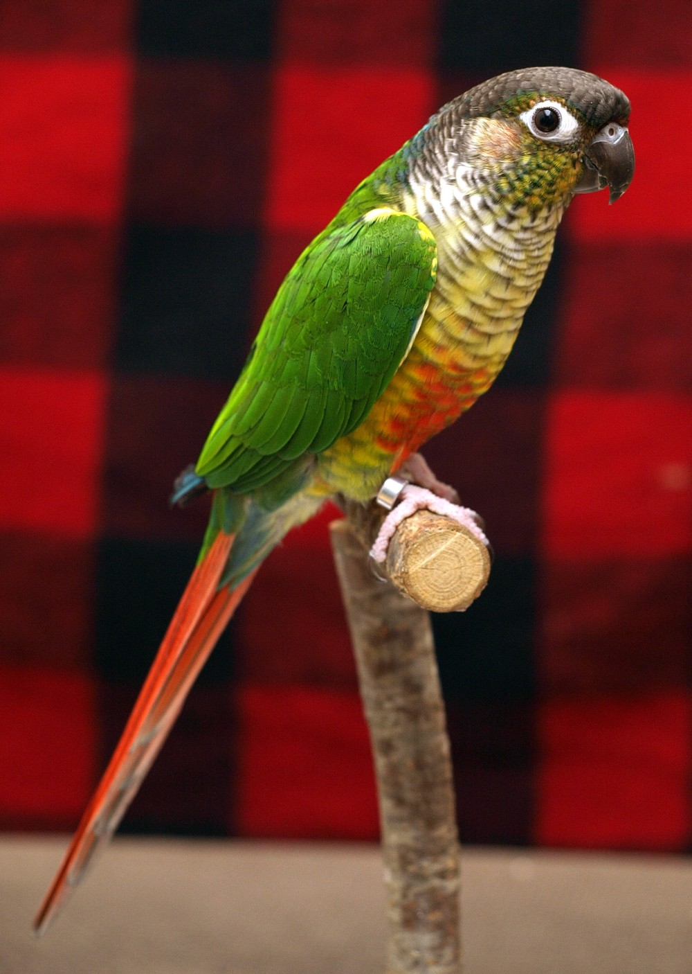 A wing clipped adult of the naturally occurring yellow morph of a subspecies of the Green-cheeked Conure. It is also called the Sordid Conure and the Yellow-sided Conure.